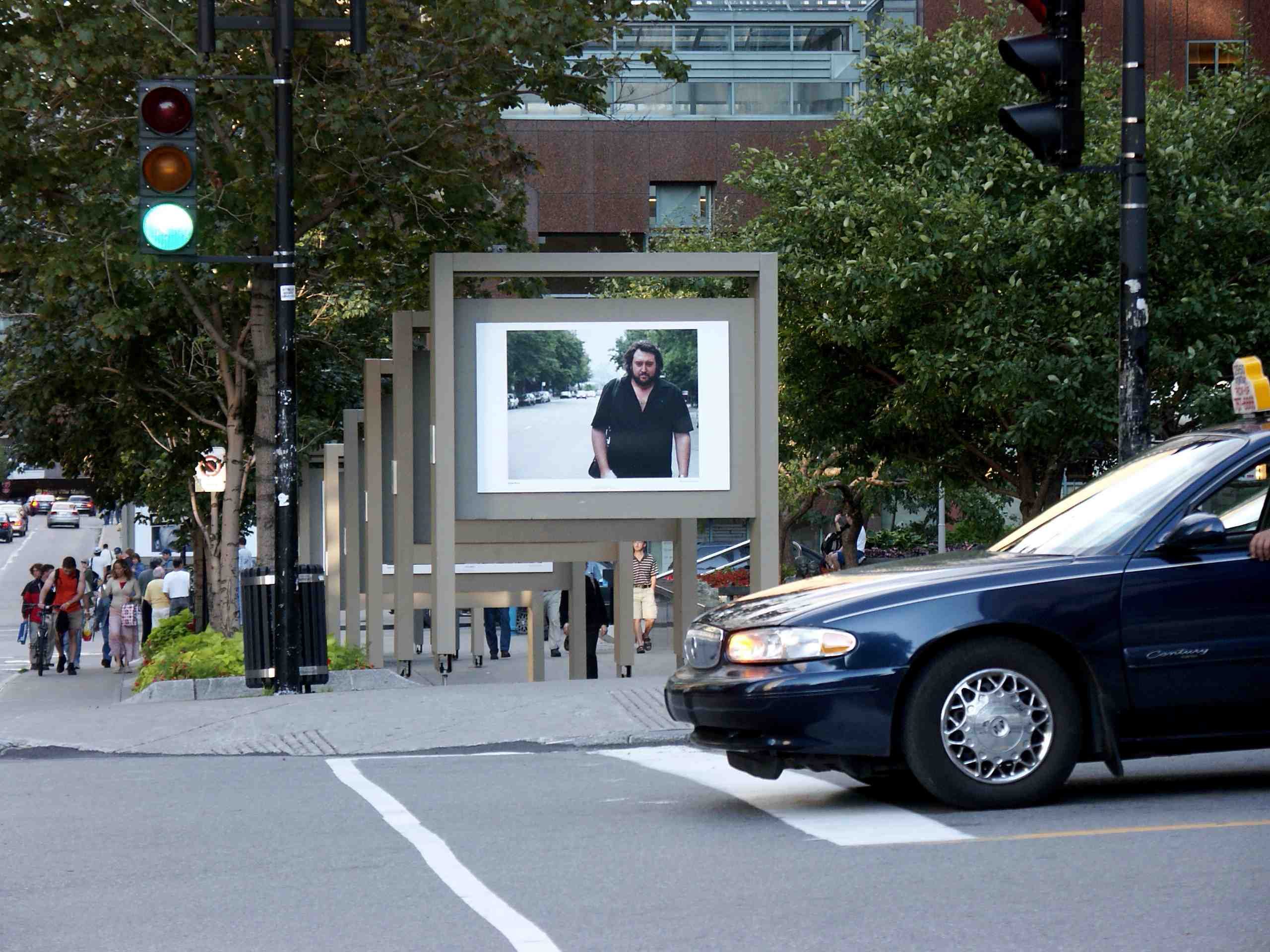 McGill College Avenue, Montreal. Photo by: User:Gene.arboit